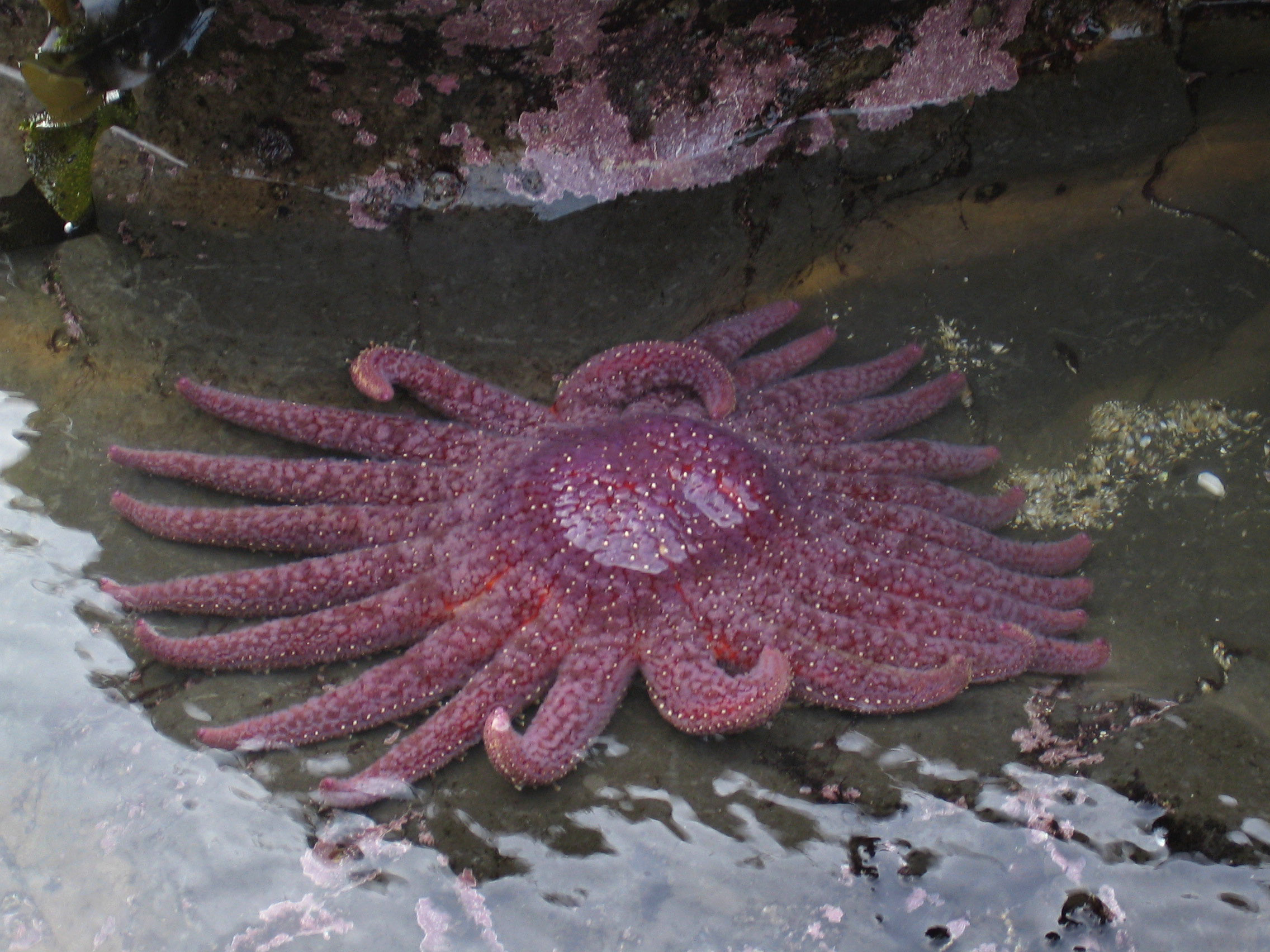 This guy and his tube feet could really move -- a couple of centimeters a second, which I imagine is blazing fast for an echinoderm. (Pycnopodia helianthoides)